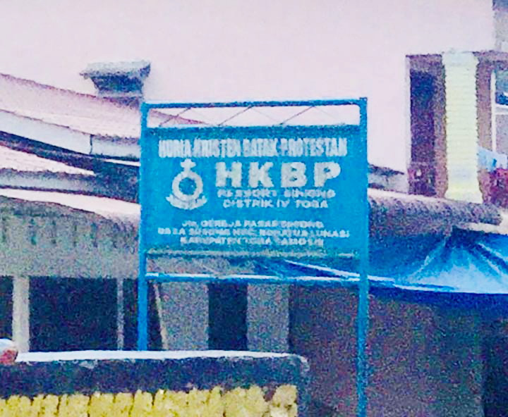 HKBP Sihiong, Res. Sihiong church in Sihiong, Bonatua Lunasi, Toba Samosir